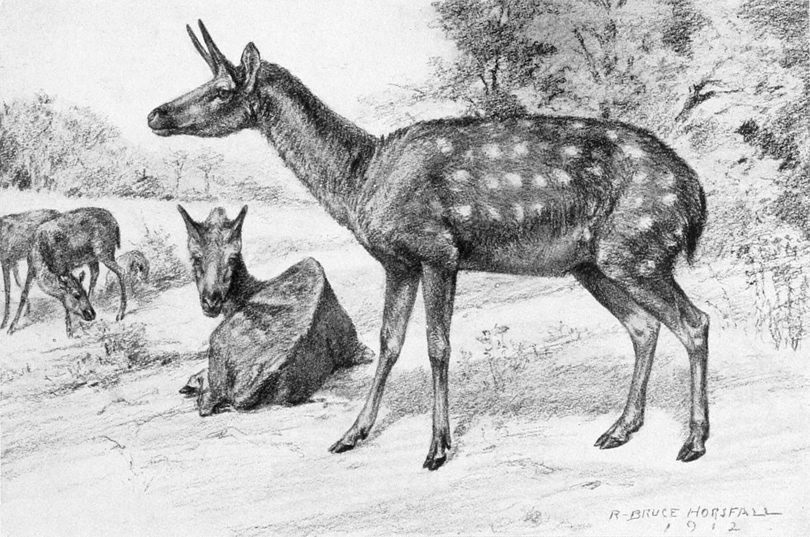 Life restoration of Subdromomeryx antilopinus (formerly Dromomeryx antilopina) from W.B. Scott's A History of Land Mammals in the Western Hemisphere. New York: The Macmillan Company.